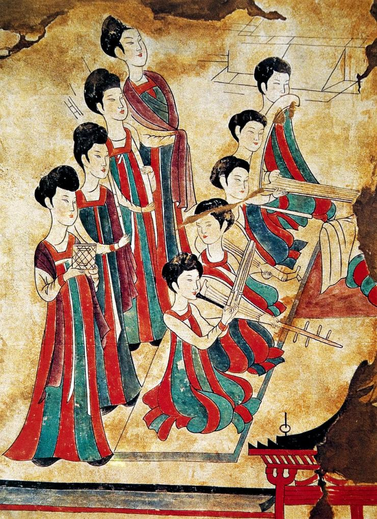 Fresco of female musicians, a scene of music and dance from the early T'ang dynasty tomb of Li Shou.